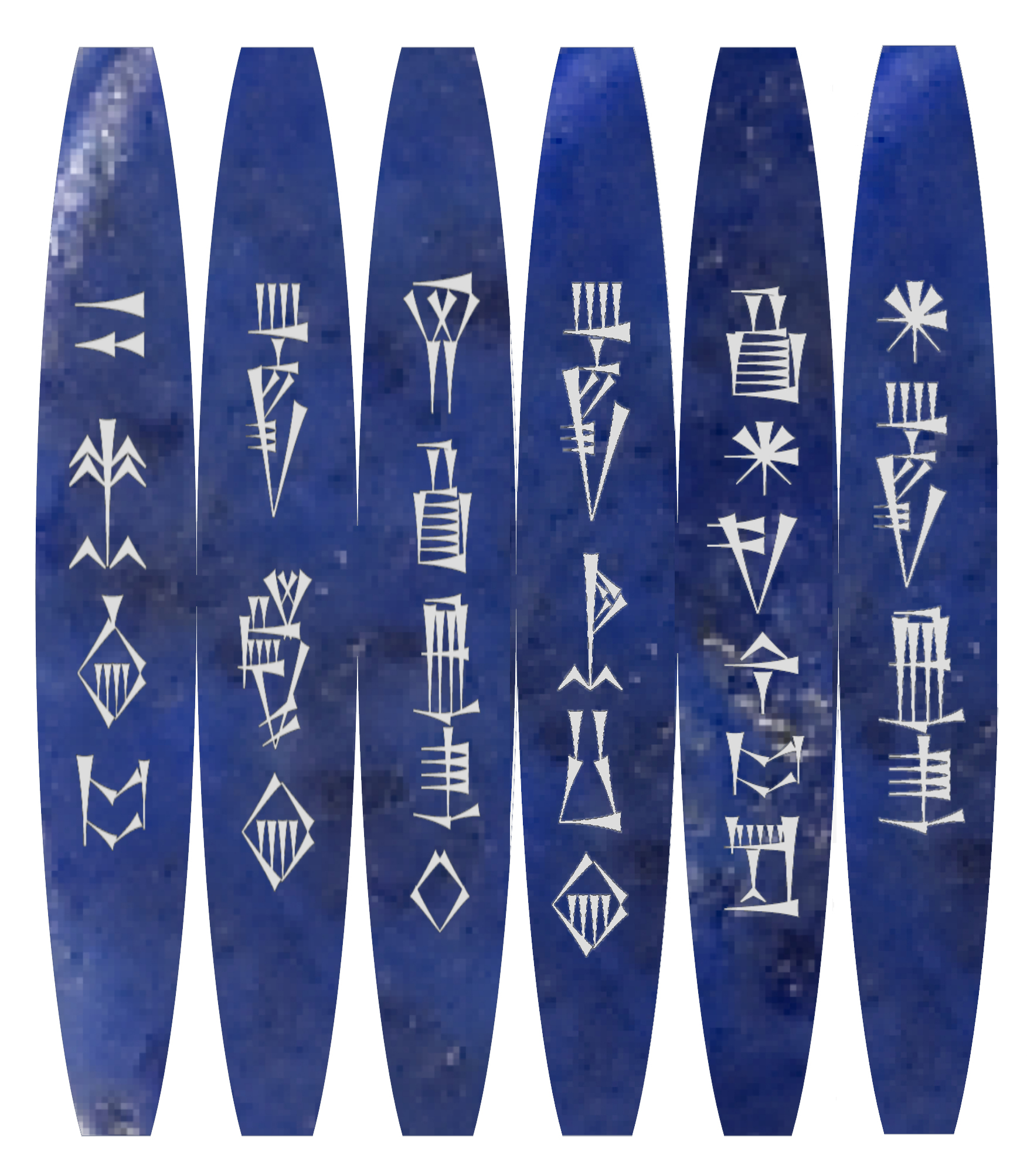 Mesannepada bead from Mari (approximate reconstitution, with standard Sumero-Akkadian characters, for illustration purposes)